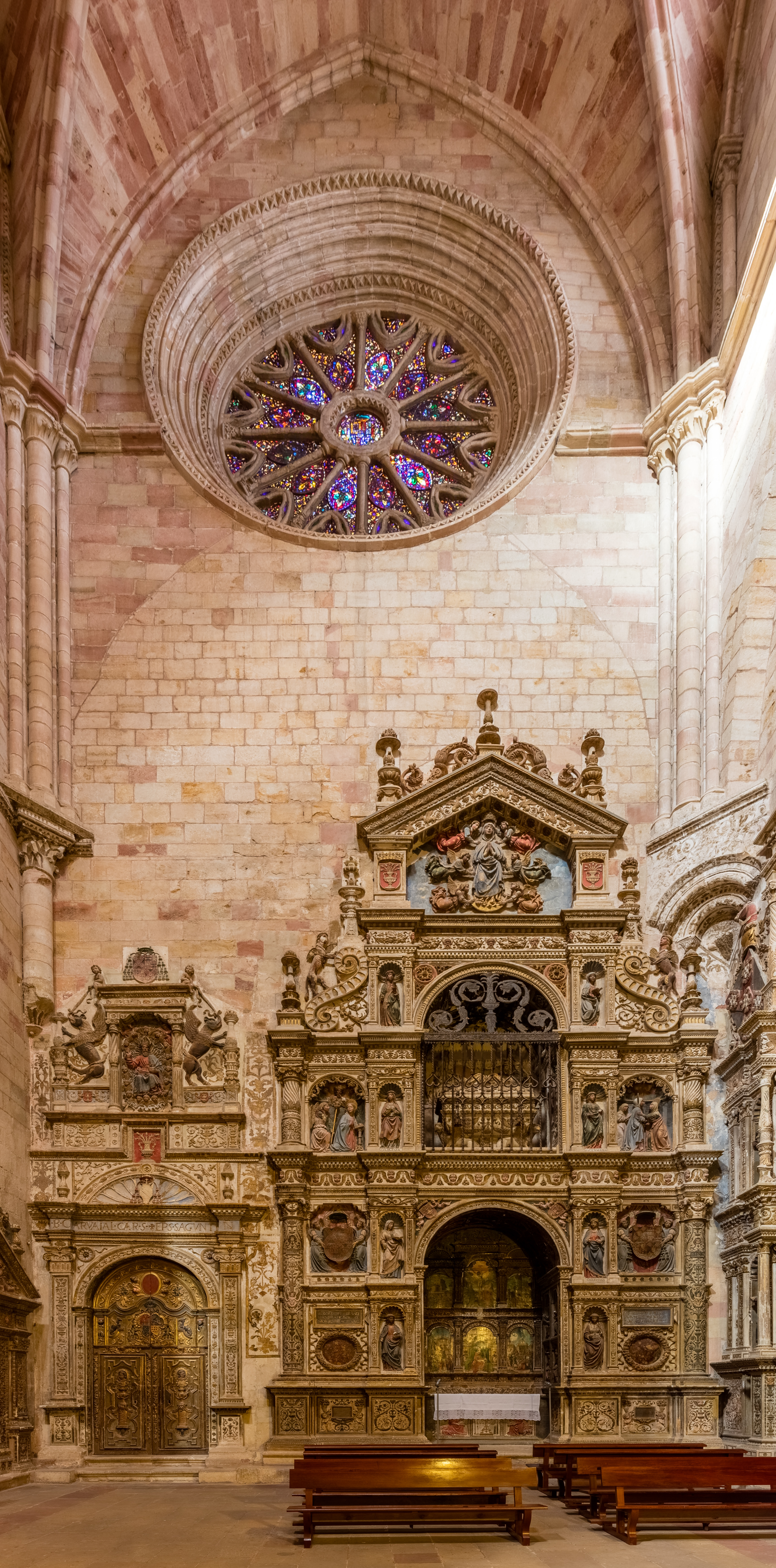 Cathedral of Santa María, Sigüenza, Spain